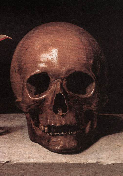 Detail from Still-Life with a Skull by Philippe de Champaigne (1602-1674) using the wikipedia image StillLifeWithASkull.jpg JPEG version after my attempt to convert to an SVG file seems not to have worked...